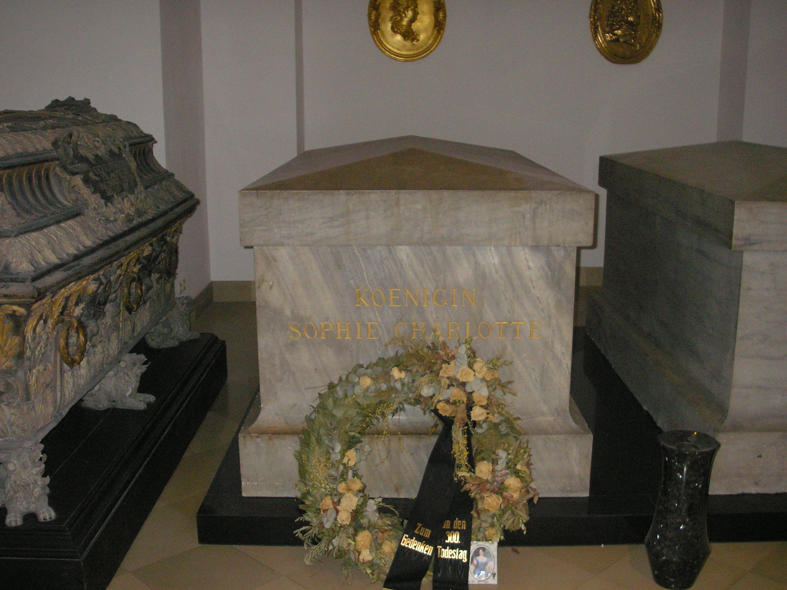 Description: Tomb of Queen Sophie Charlotte of Brandenburg. Located in the Hohenzollern crypt in the Berliner Dom. Source: self-made, I release it into the public domain. Gryffindor 15:43, 11 April 2006 (UTC)